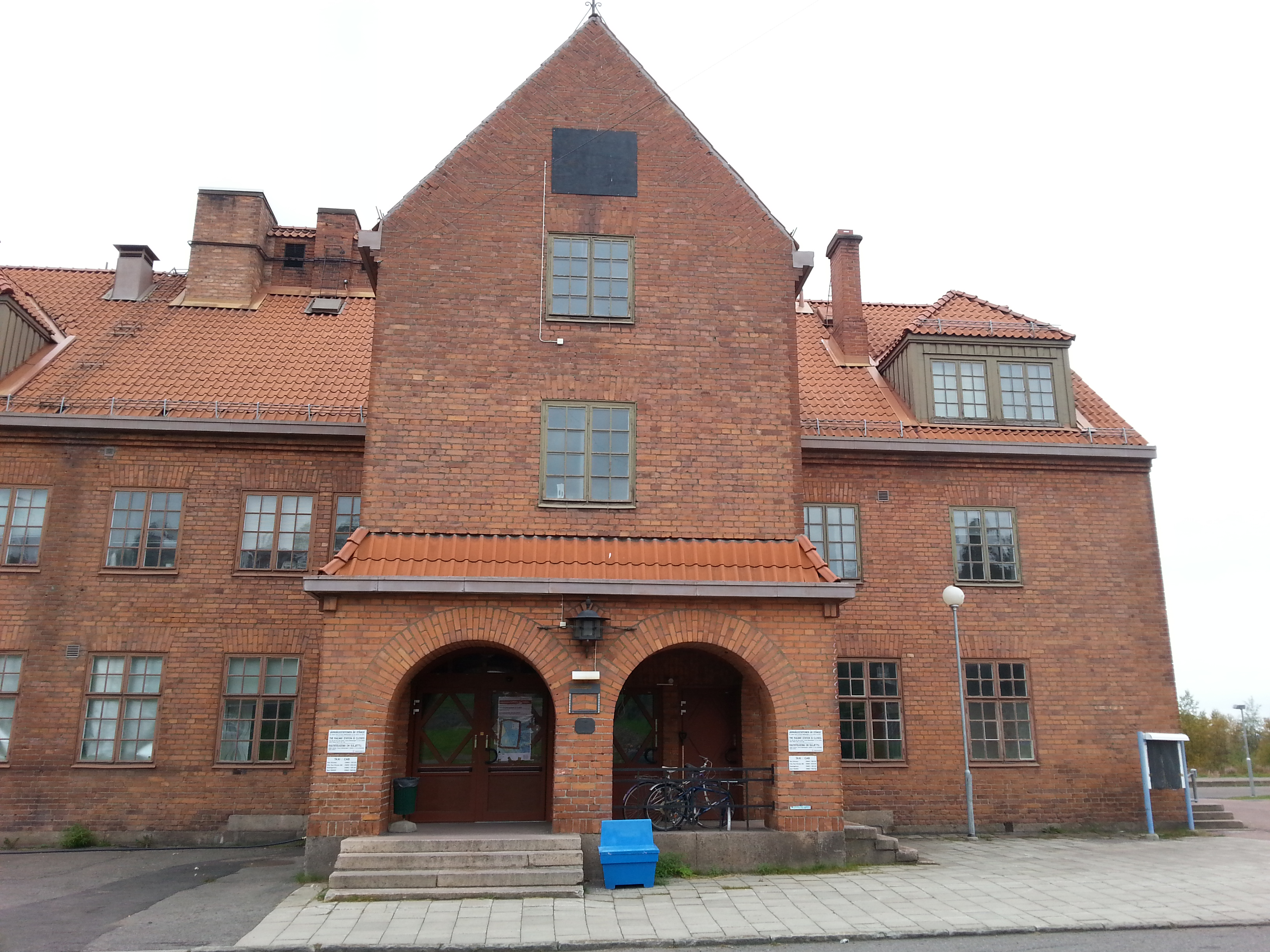 Kiruna gamla station framsida